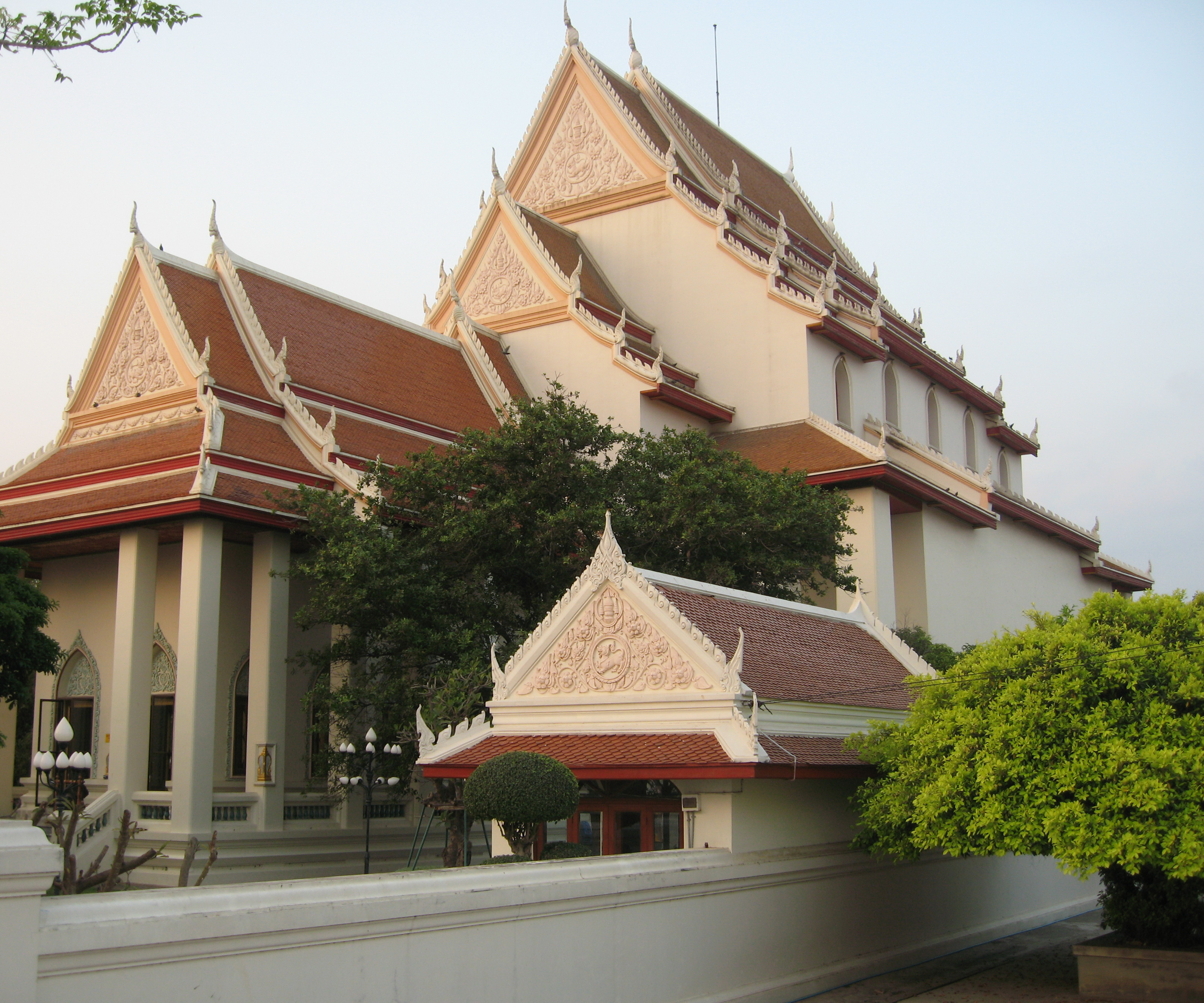 Chaiyo temple